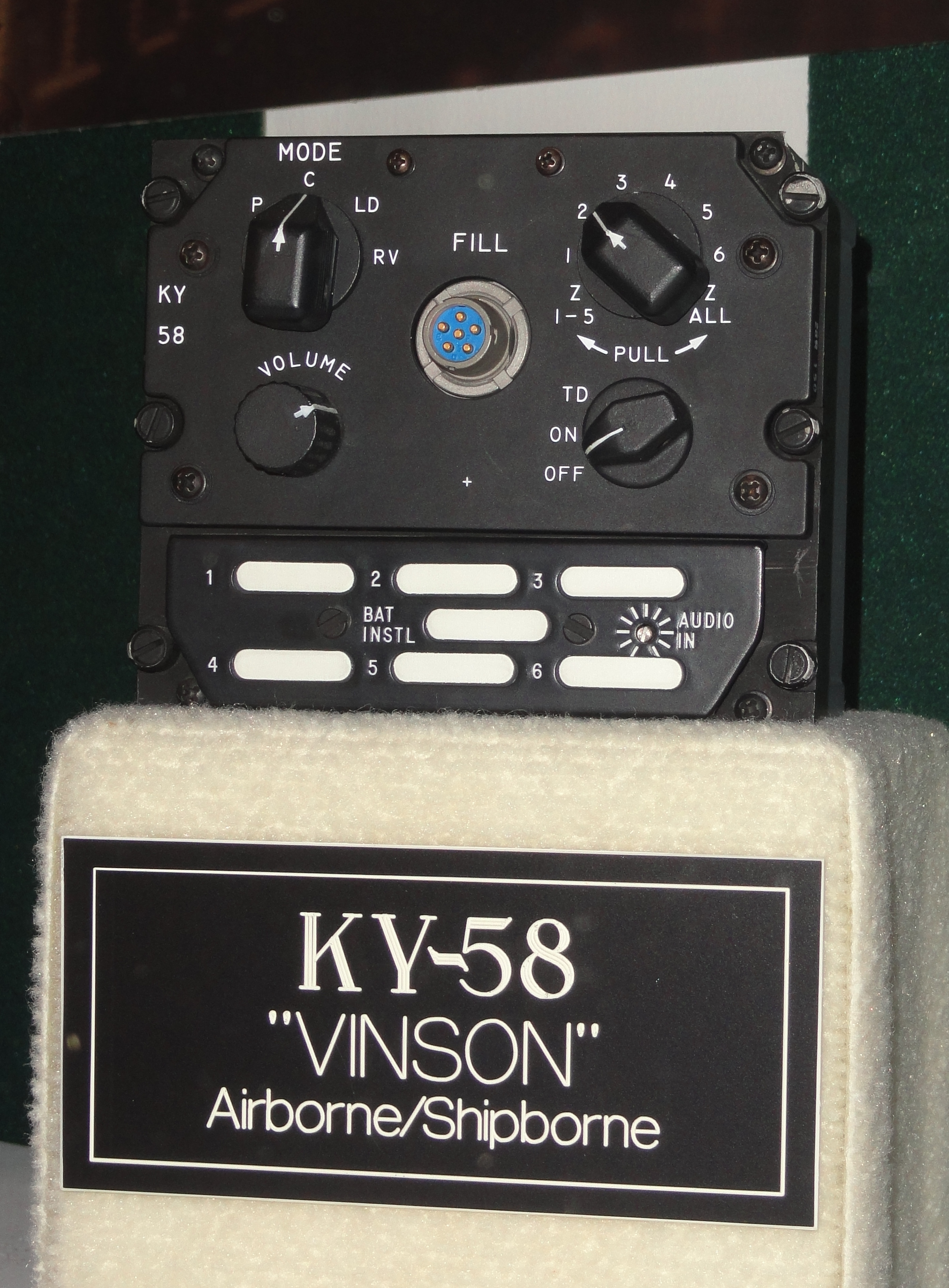 Exhibit in the National Cryptologic Museum, Fort Meade, Maryland, USA. All items in this museum are unclassified; items created by the United States Government are not subject to copyright restrictions.